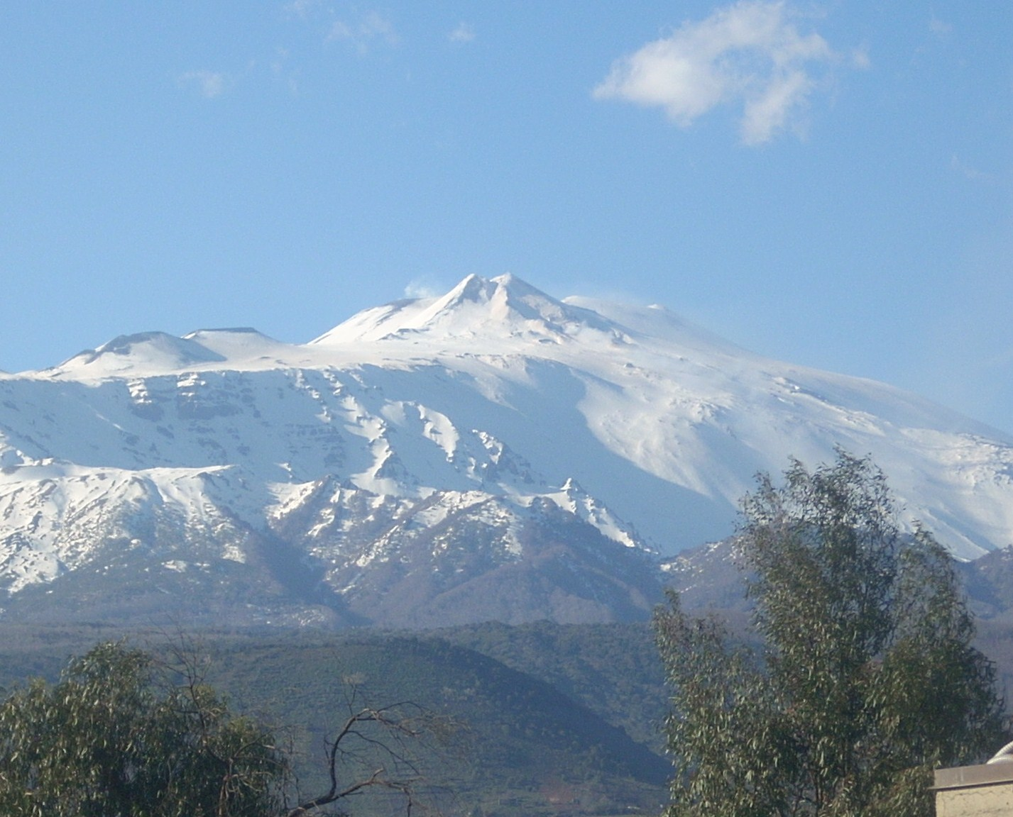 Mount Etna in winter blanketed in snow